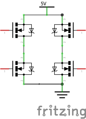 H bridge made with N channel-only MOSFETs. Please do not copy this schematic, as the N channel MOSFETs are connected wrongly! There will be a short circuit from 5V to GND because the polarity of MOSFET's body diodes!!